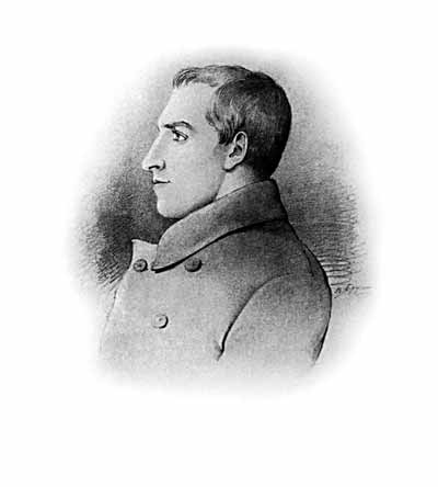 Apollon Grigoryev (1822-1864)